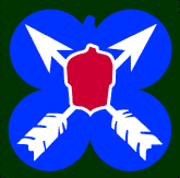 XXI Corps SSI from [1]